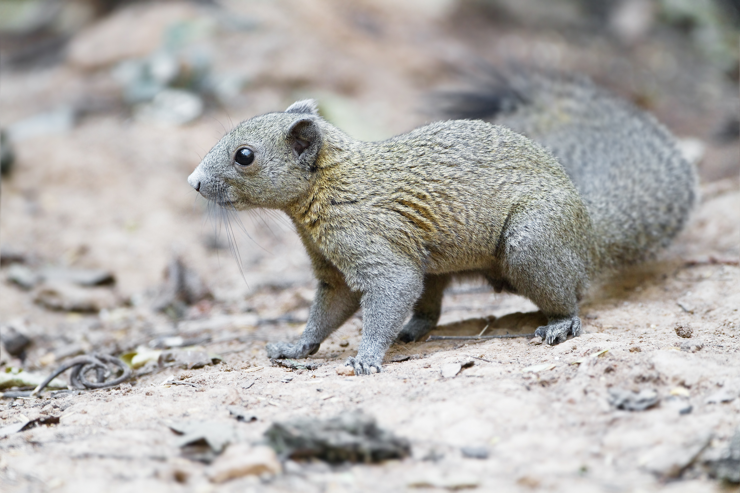 Callosciurus caniceps caniceps, Song Phi Nong, Kaeng Krachan, Phetchaburi, Thailand